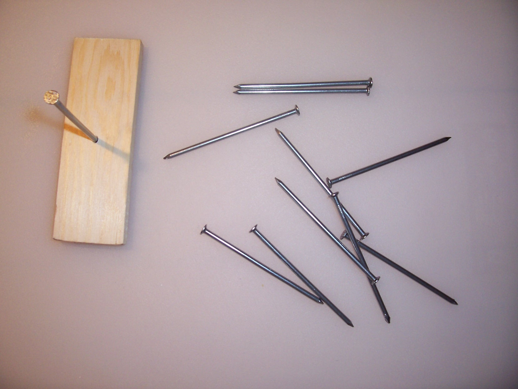 Photo by User:Plani (Benutzer:Plani). It shows the first step of the "Berchtesgadener problem". Other versions: Image:Lösung_BerchtesgadenerProblem.JPG, Image:Endversion_BerchtesgadenerProblem.JPG